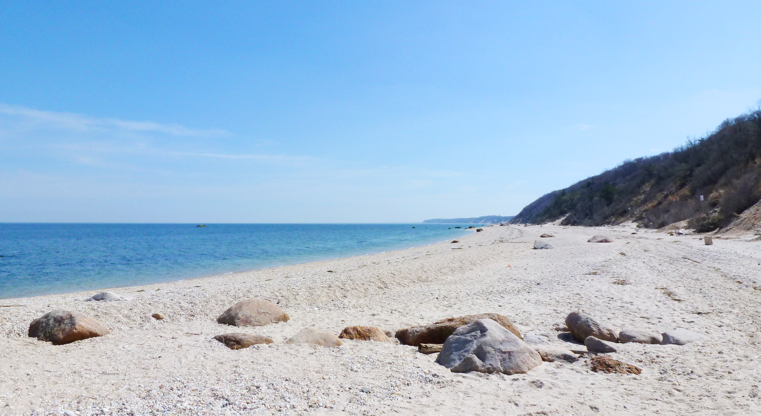 Long Island North Shore